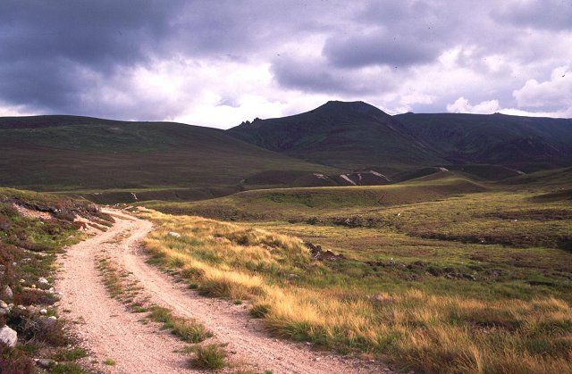 Moraine deposits in Glen Avon. Track down Glen Avon with glacial deposits visible beneath Ben Avon. Some of the Ben Avon tors can also be seen.